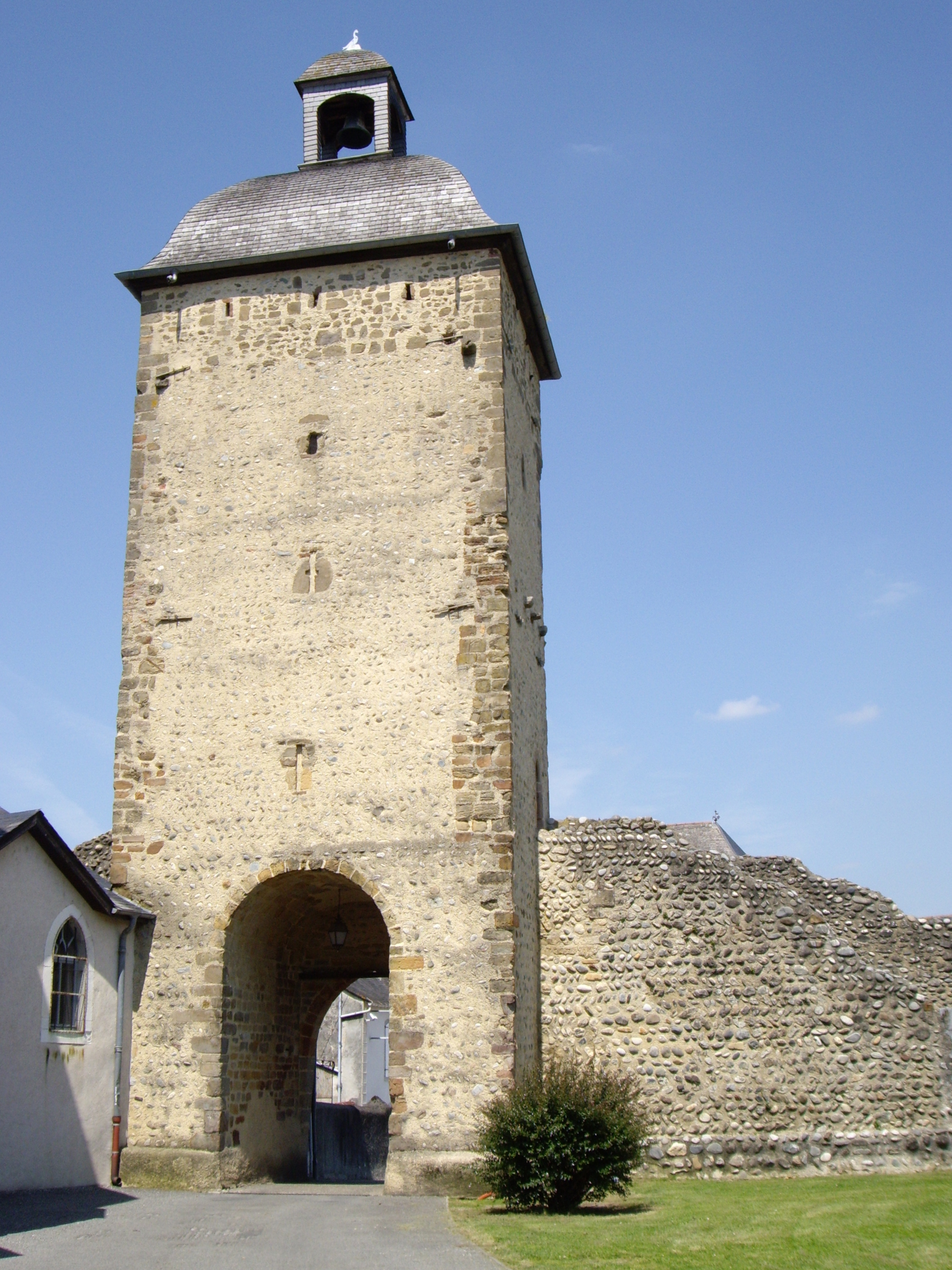 Pontacq tower, Pyrénées-Atlantiques, France